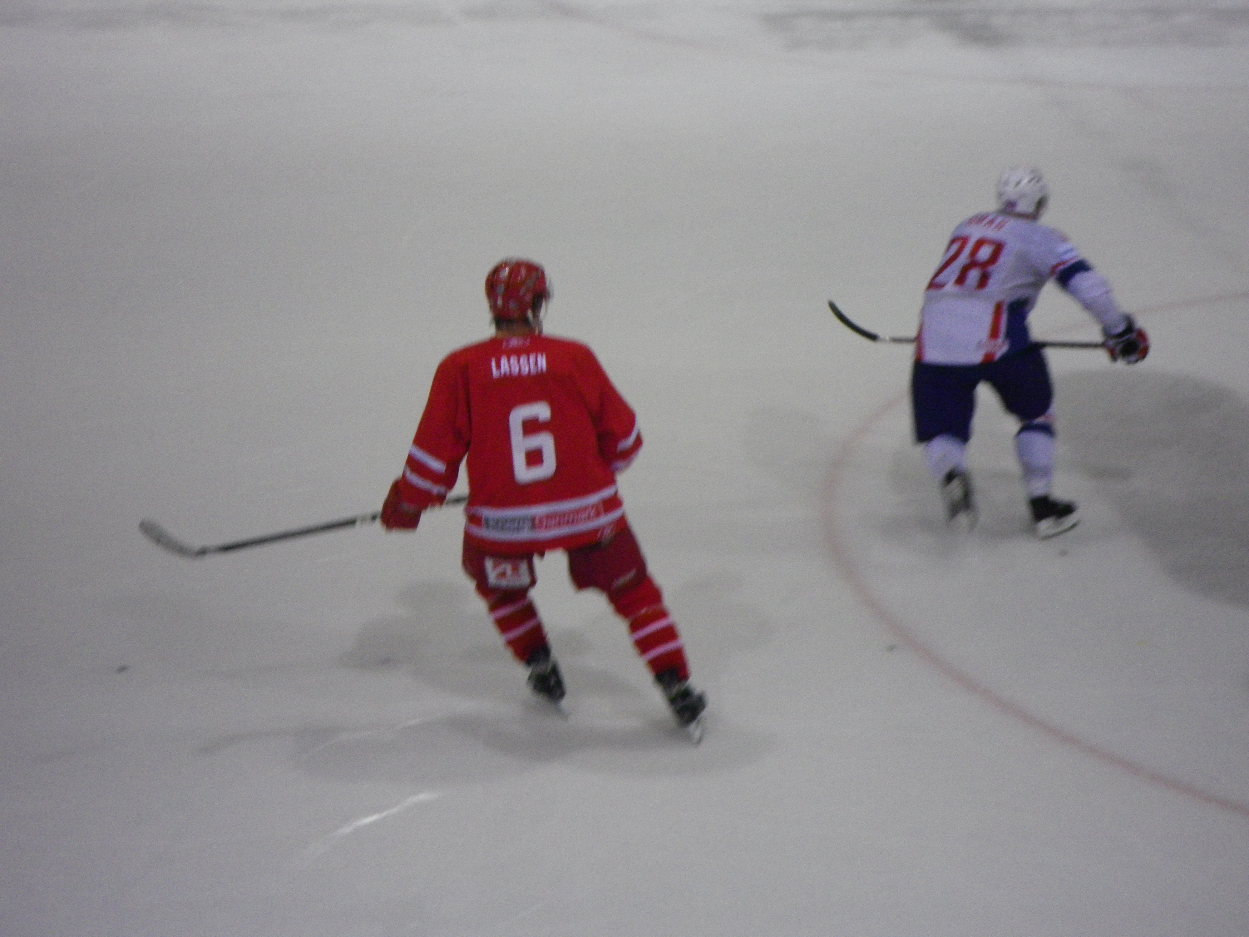 Stefan Lassen, danish ice hockey player with team Denmark. Friendly against team France